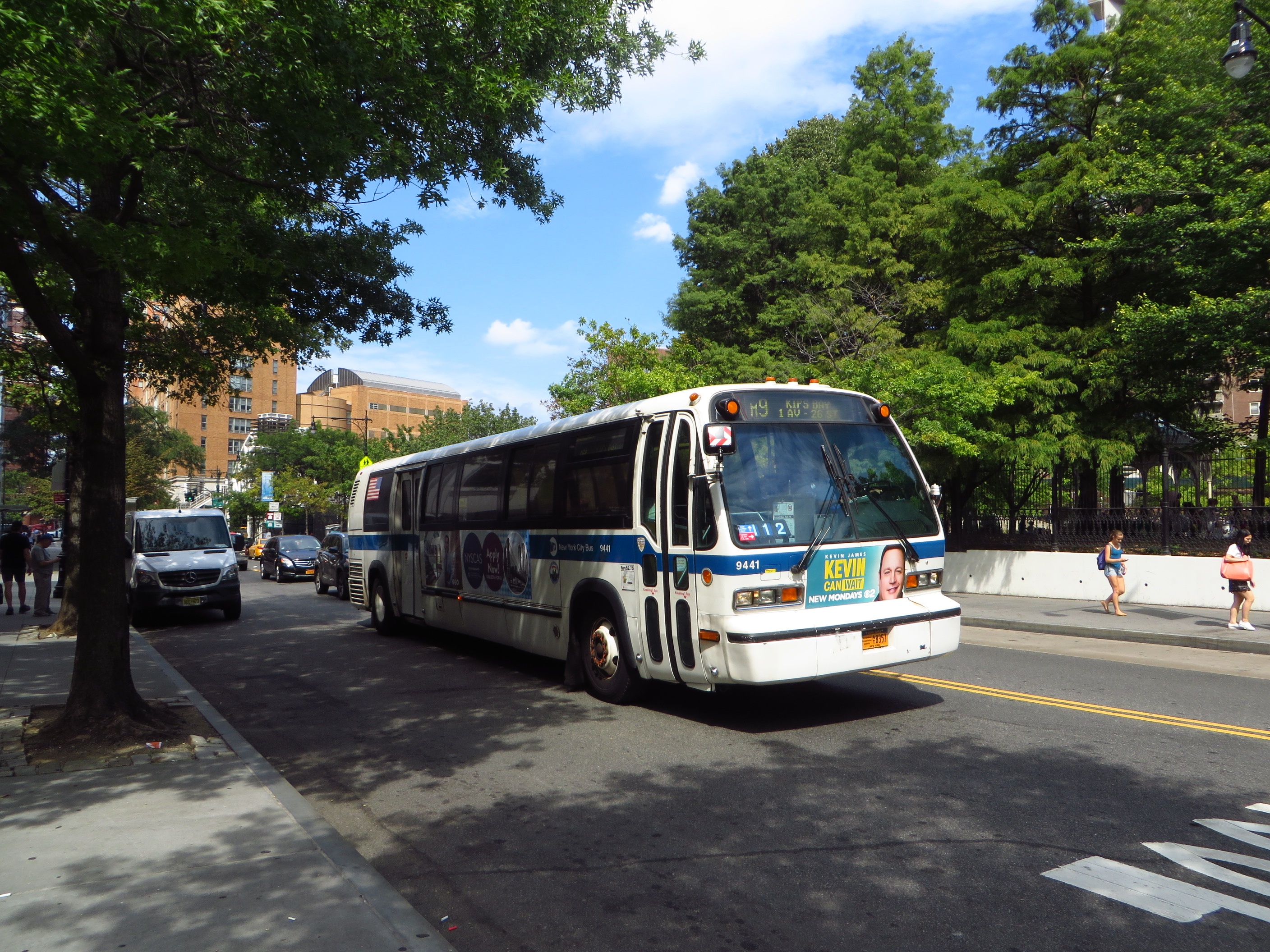 NYCT Bus 1997 NovaBus RTS-06 #9441 operates on the M9 bus route, pictured at Chambers and Greenwich Streets in TriBeca, Manhattan. Note that this bus is on a detour in this photo, and is one block north of where it should be.